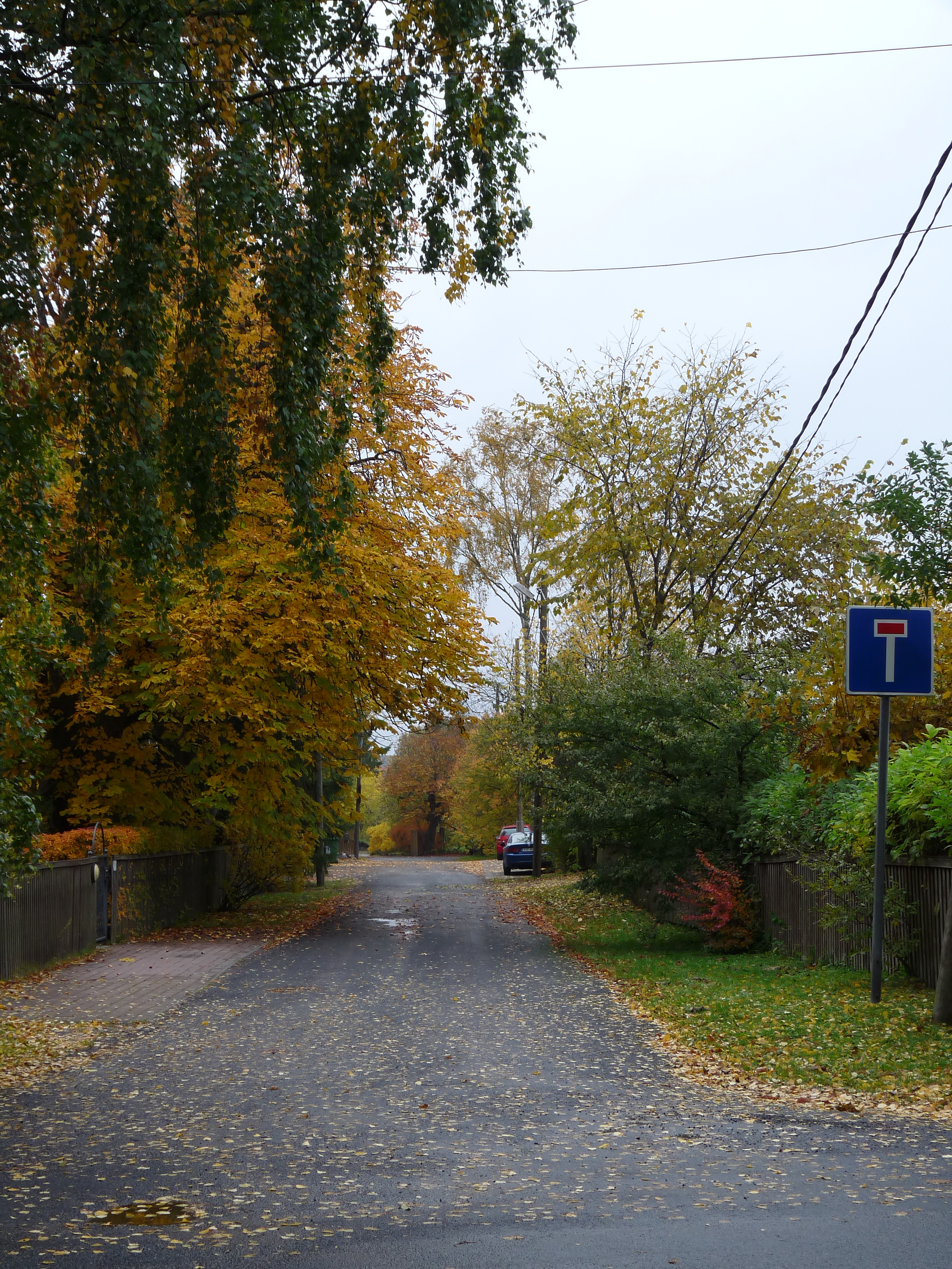 Vee street in Tallinn, Estonia